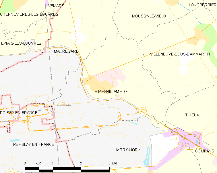 Map of French municipality Le Mesnil-Amelot